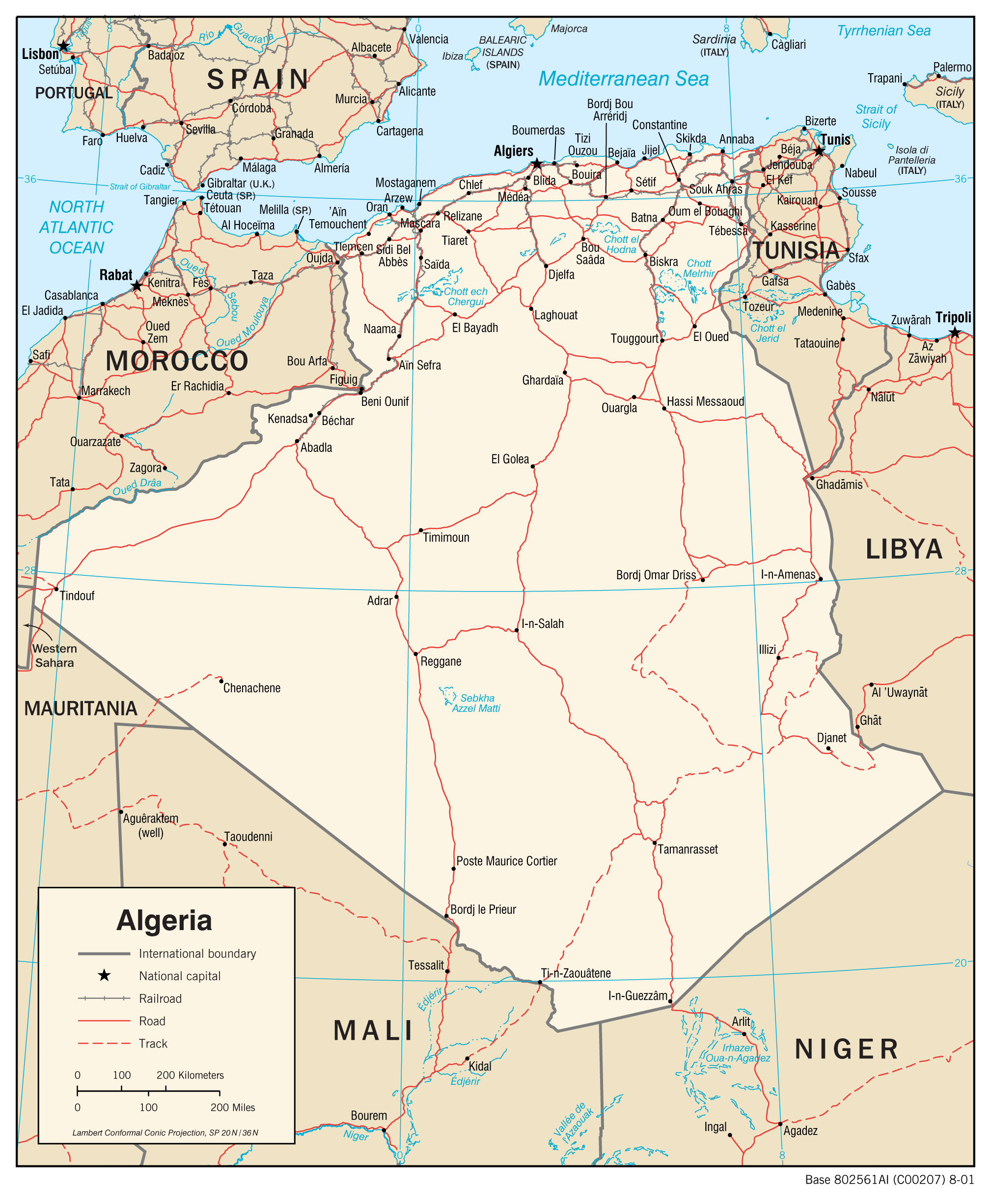 Transport system in Algeria, 2001.